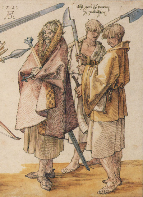 In 1521 Albrecht Dürer drew a group of Irish and Scottish Warriors (three Galloglass and two Kerns. This is a part a drawing of these five soldiers of the 16th century, that shows how they dressed and carried themselves. At left is a Scottish gallòglach (Gallowglass), who is carrying his claidheamh mhòr (great sword), followed by two bare foot kern (gealic warriors) carrying pole axes and a cow horn trumpet.